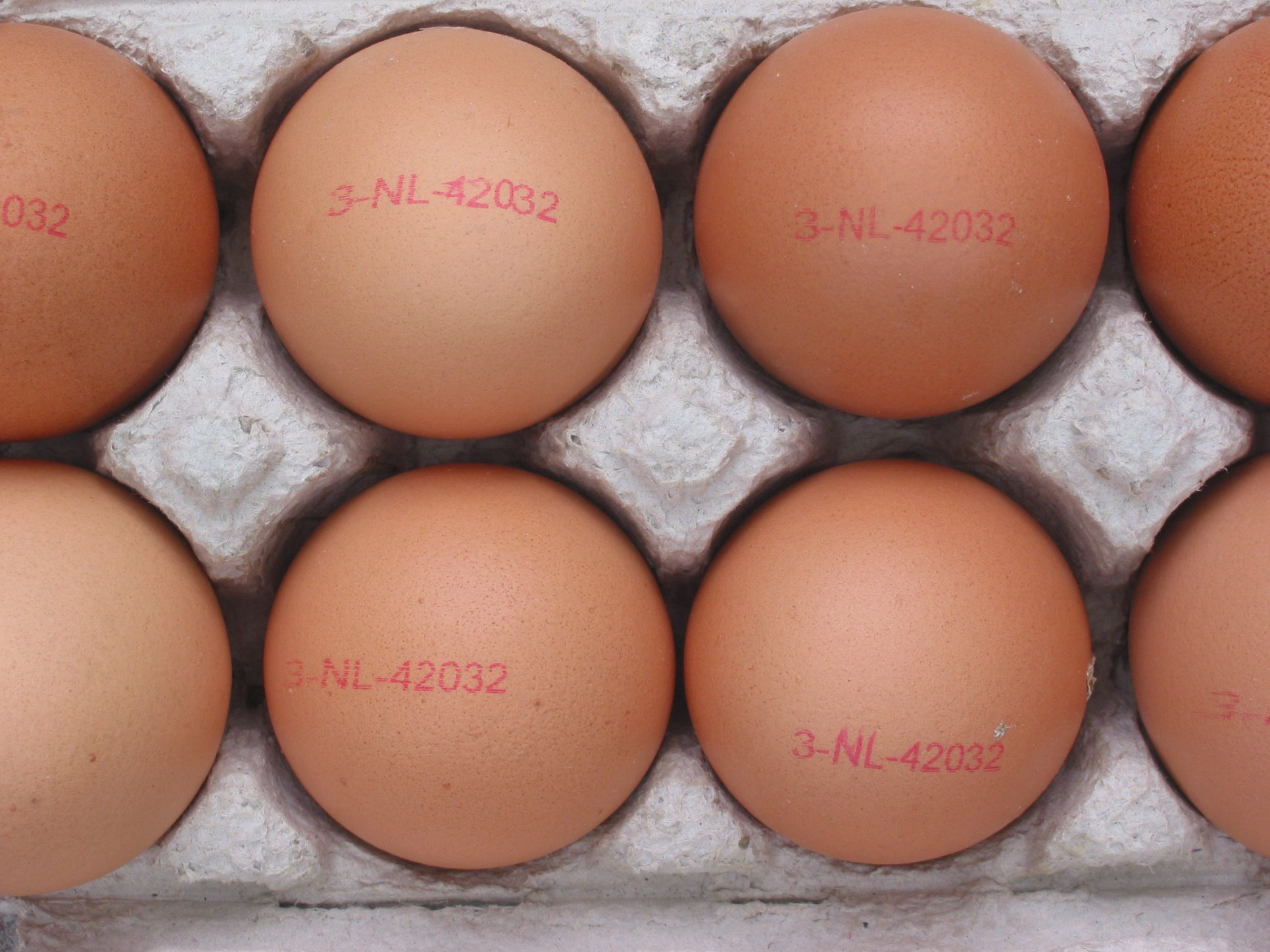 Eggs with coding in Netherlands